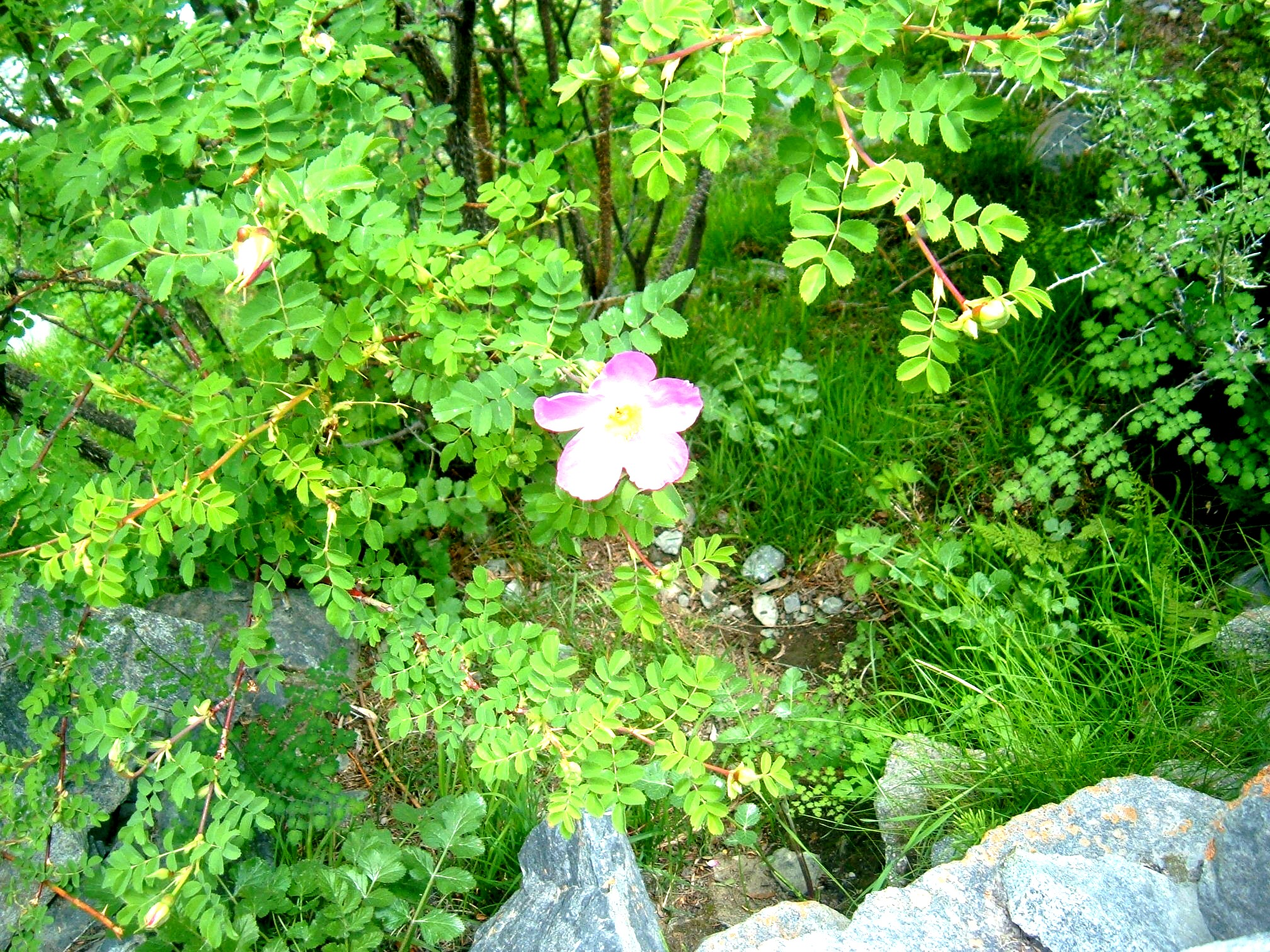 a flower which is called sia in balti language